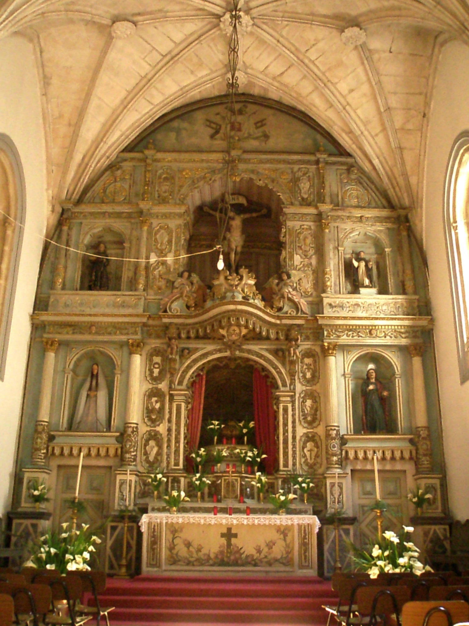 Chapel of D. Fradique de Portugal inside San Francis Church in Estremoz